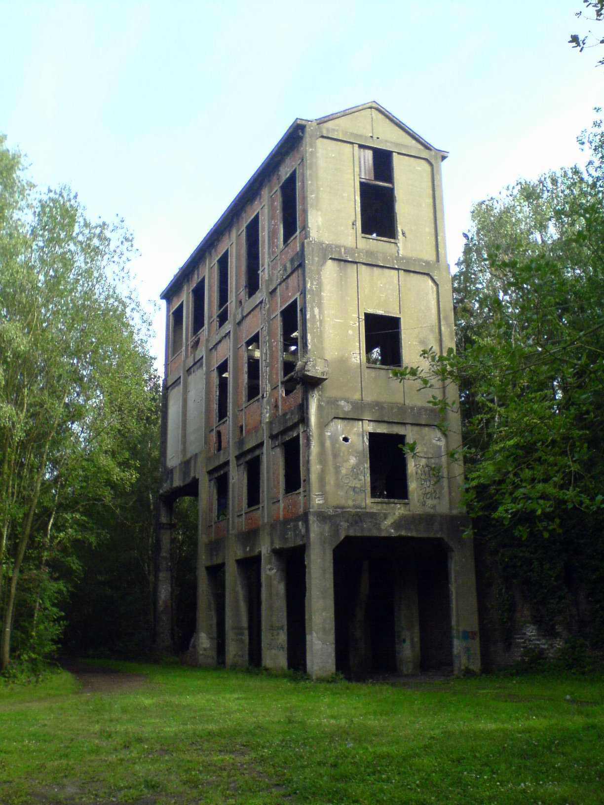 Parts of the mines situated in Flénu. This building can be found at: 50.437063, 3.905205